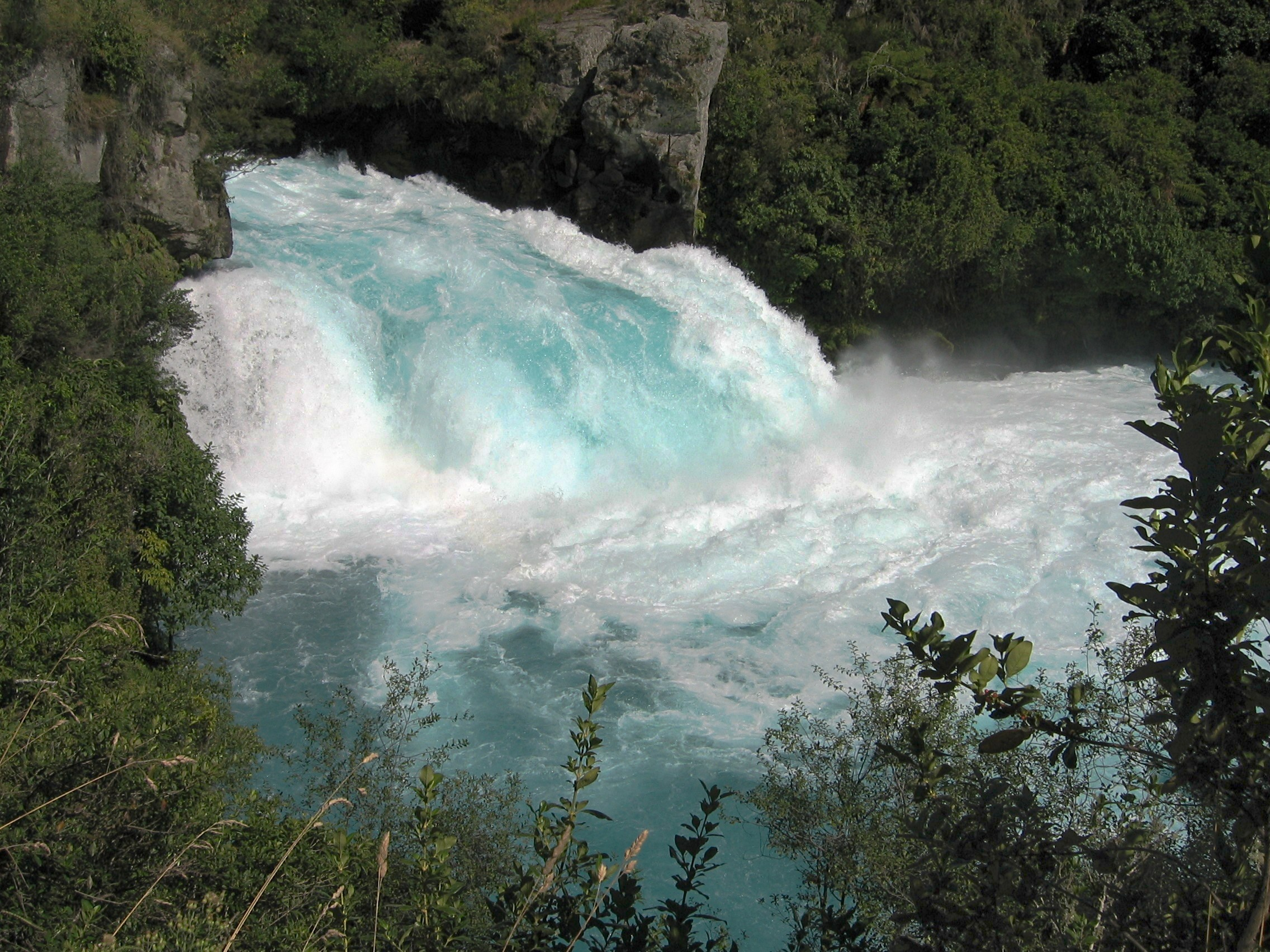 Huka Falls, on the Waikato River near Taupo, New Zealand.